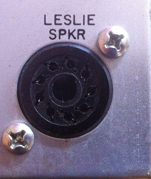 A 9 pin amphenol connector for a Leslie Speaker, found on a Leslie Connector part number 043075